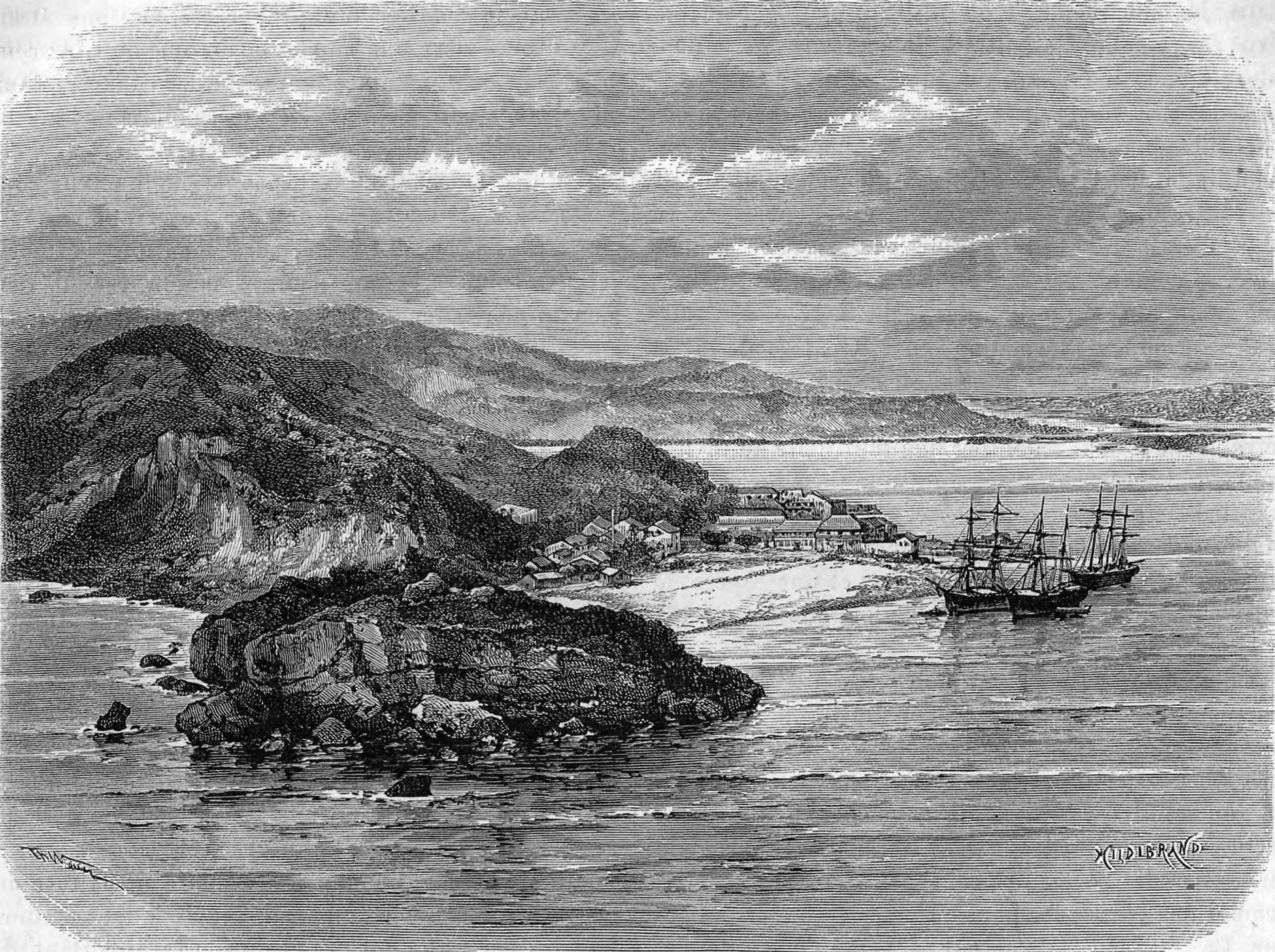 "Entrée du port de Ta-kao." [Entrance to the port of Takao (now Kaohsiung, Taiwan).] 1875. Thomson, John. Voyage en Chine. Formose. Notes by A. Talandier. Le Tour du Monde (1875): 209.